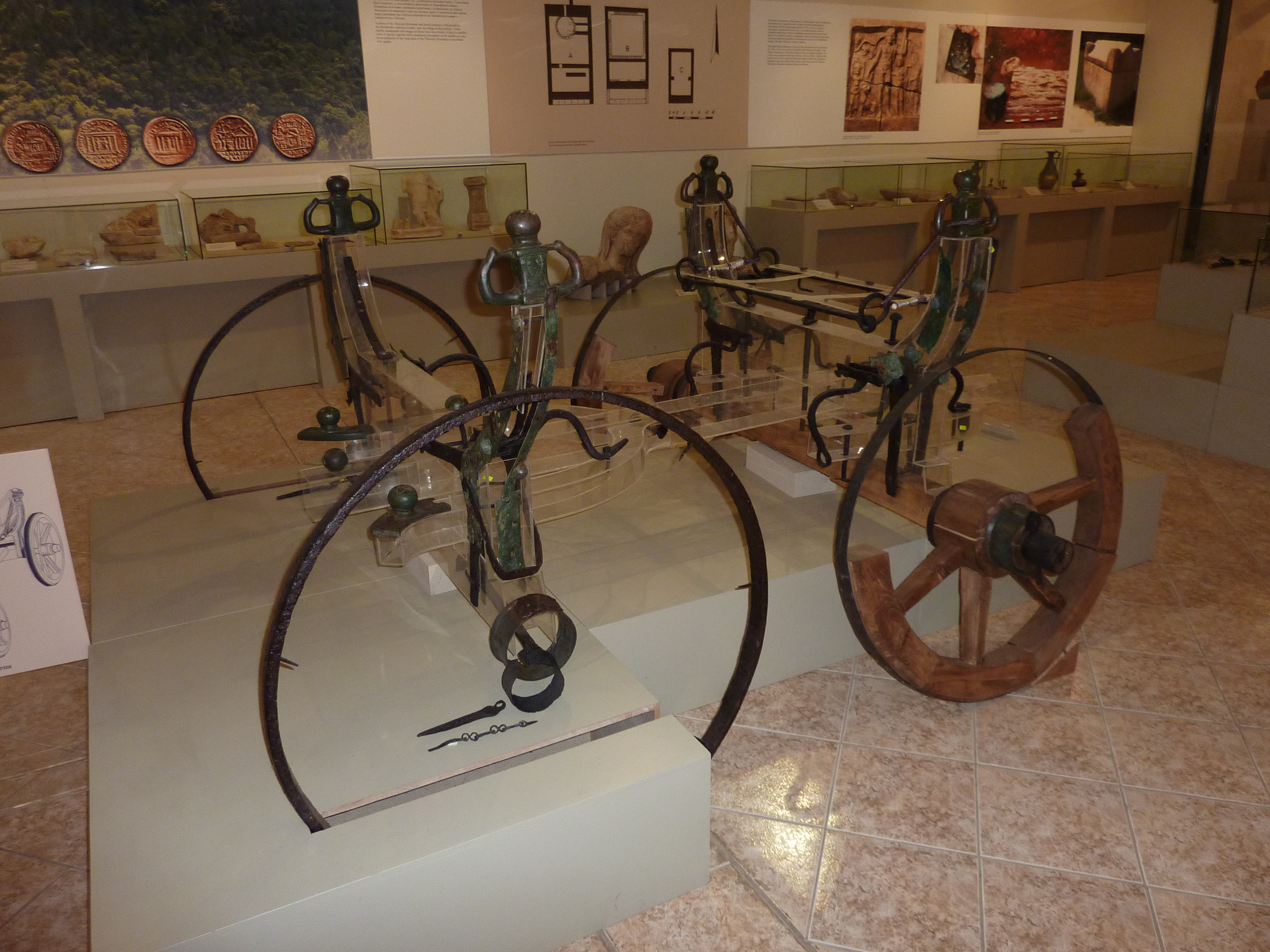 Thracian Roman quadricycle found near the village Razlovtsi.